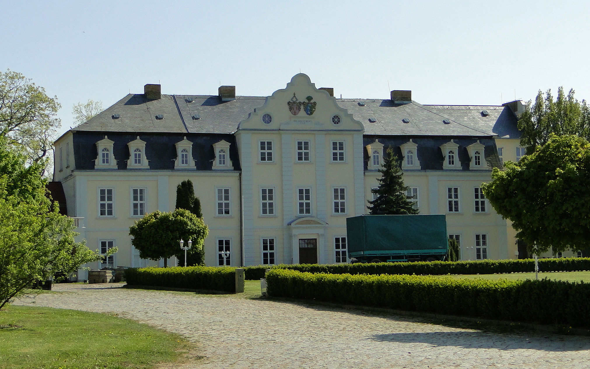 Manor house in Groß Miltzow, district Mecklenburgische Seenplatte, Mecklenburg-Vorpommern, Germany